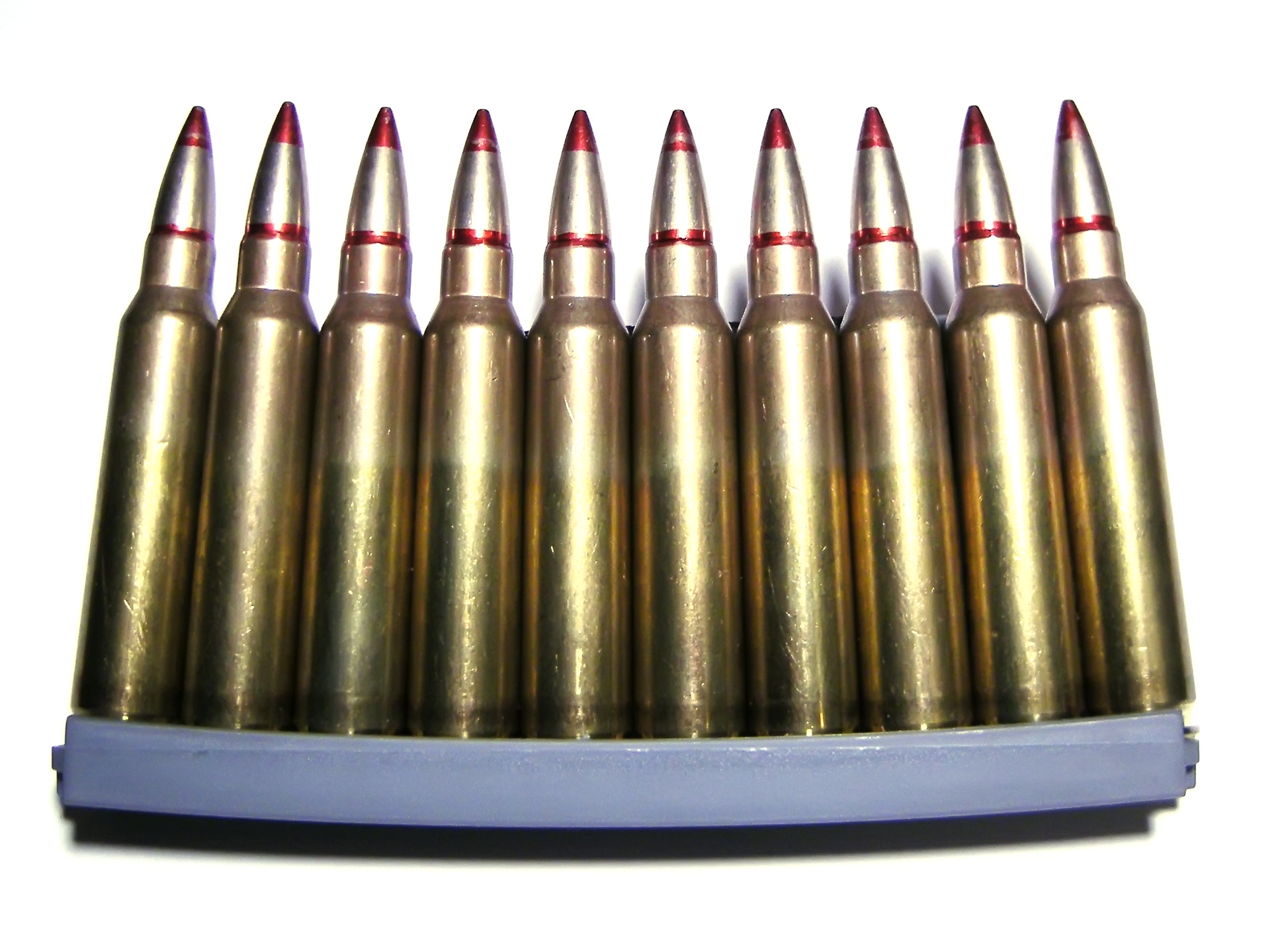 Swiss Army Gw Pat 90 tracer rounds (591-1055).